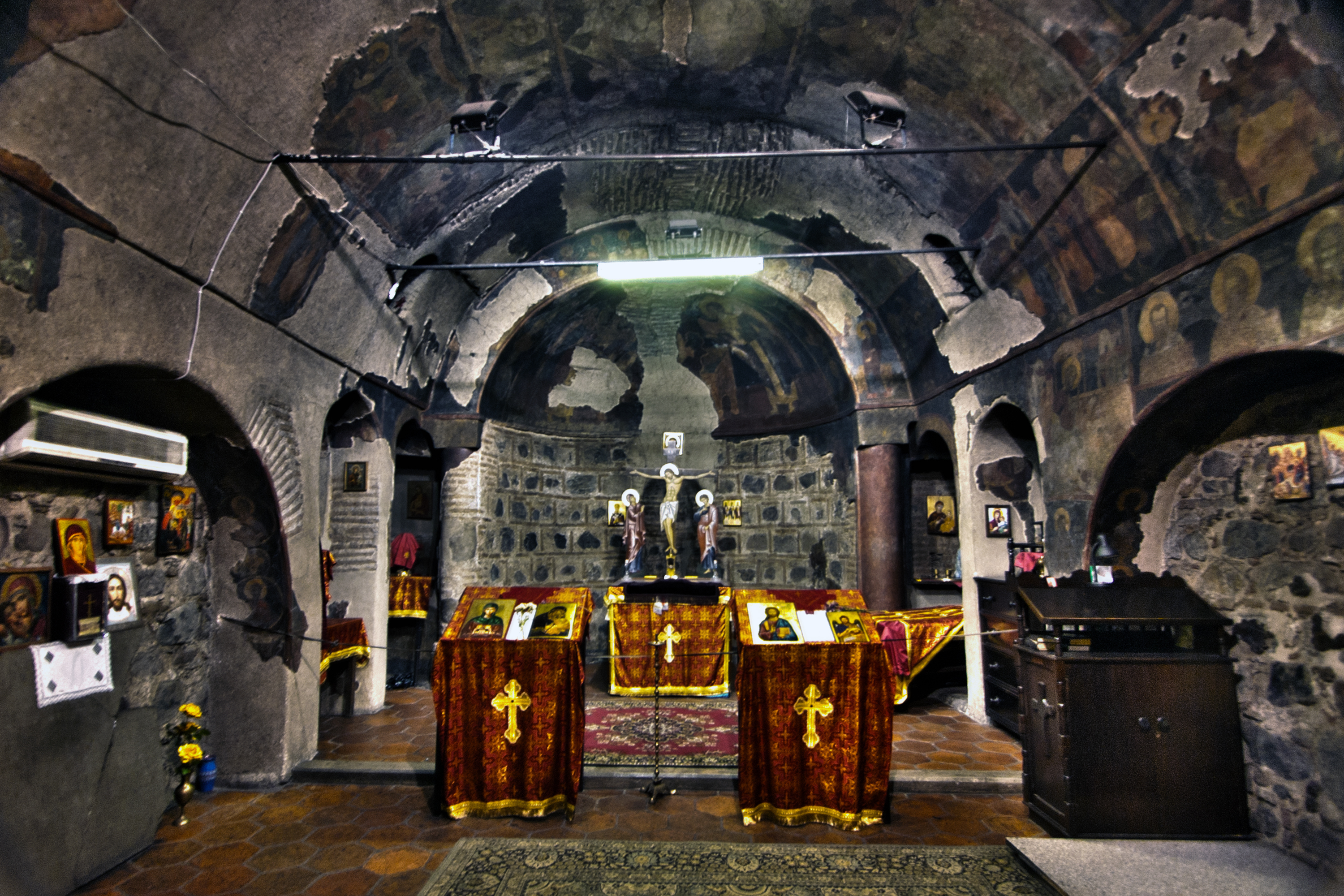 St. Petka Samardjiiska is a one-nave edifice dedicated to St Petka, a 11th century Bulgarian saint. The church features a semi-cylindrical vault, a hemispherical apse, and a crypt discovered during excavations after the Second World War. The walls are 1m thick and made from brick and stone.